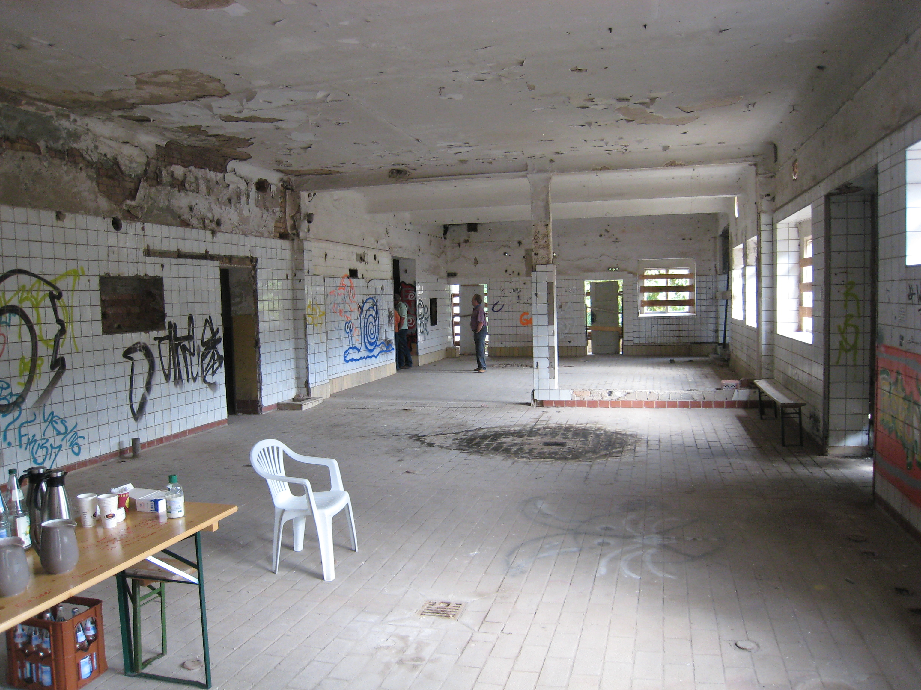 Milchhof Arnstadt